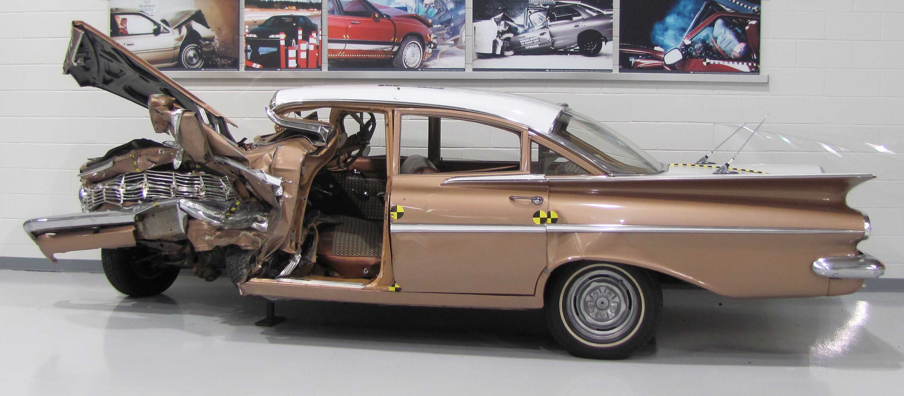 Crash-tested 1959 Chevrolet Bel Air photographed at the Insurance Institute for Highway Safety Vehicle Research Center. [1]